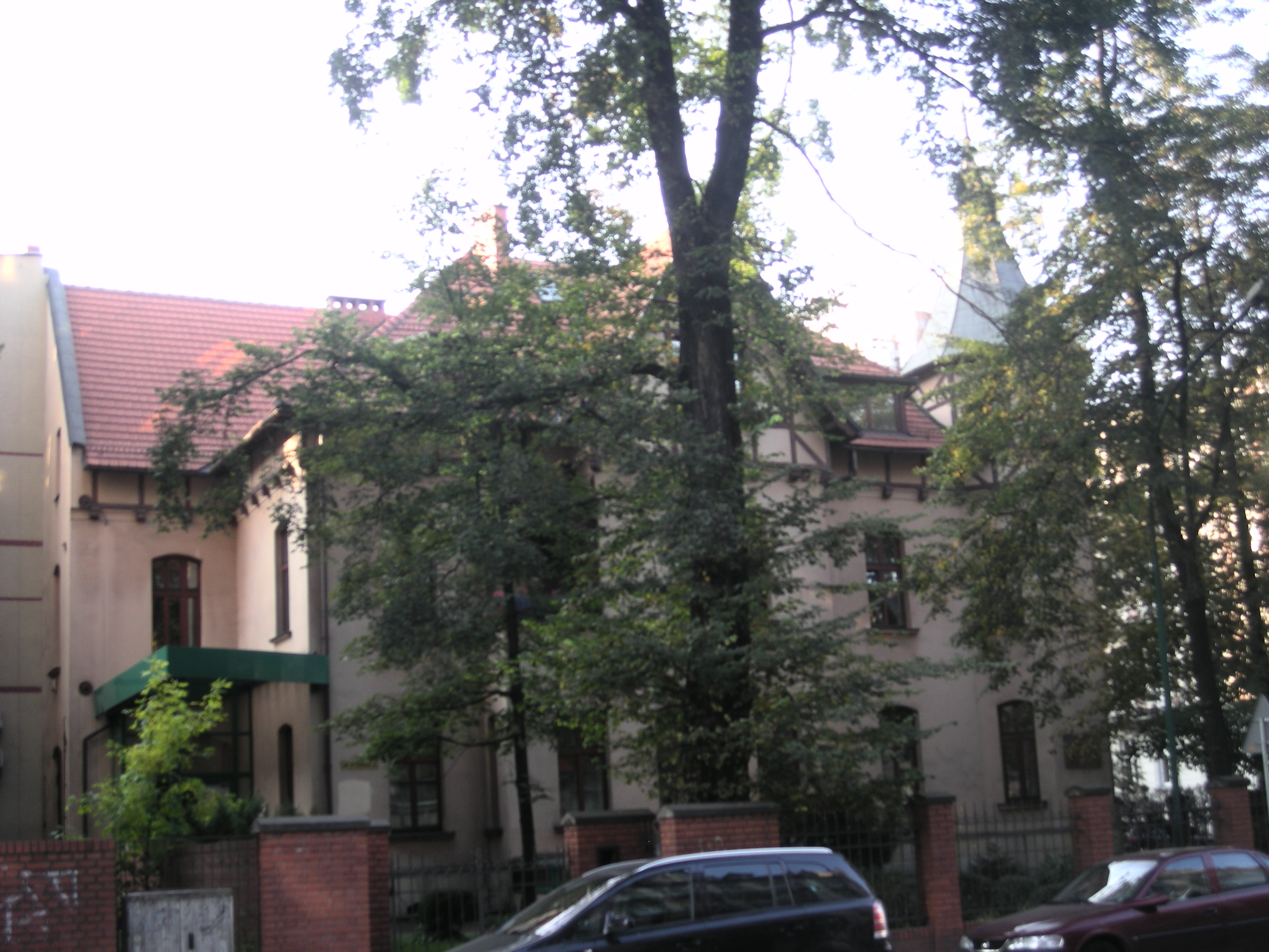 building at 8 Sokolska Street in Katowice. Before WW2, in this building Germany consulate was situated[1]